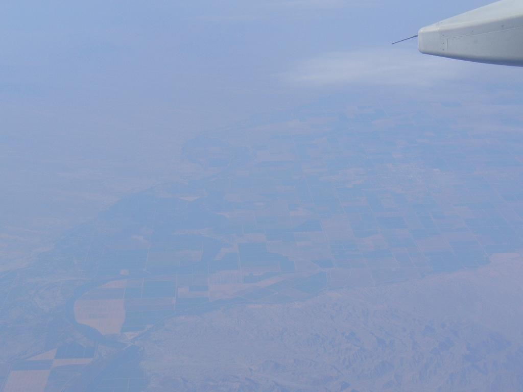 Blythe, California from the air (PHX to LAX) — on the Colorado River in Riverside County, California.